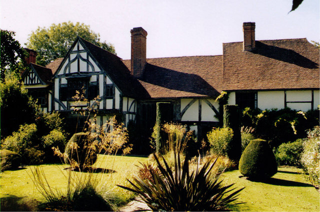 Stoneacre, Otham